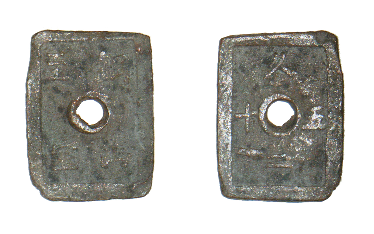 Dozanshiho-50mon